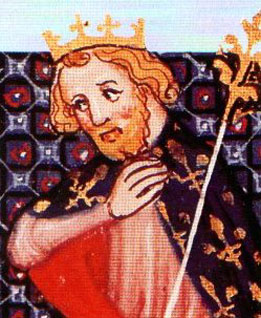 Karollus Martellus(Charles Martell) in ca. 10th century